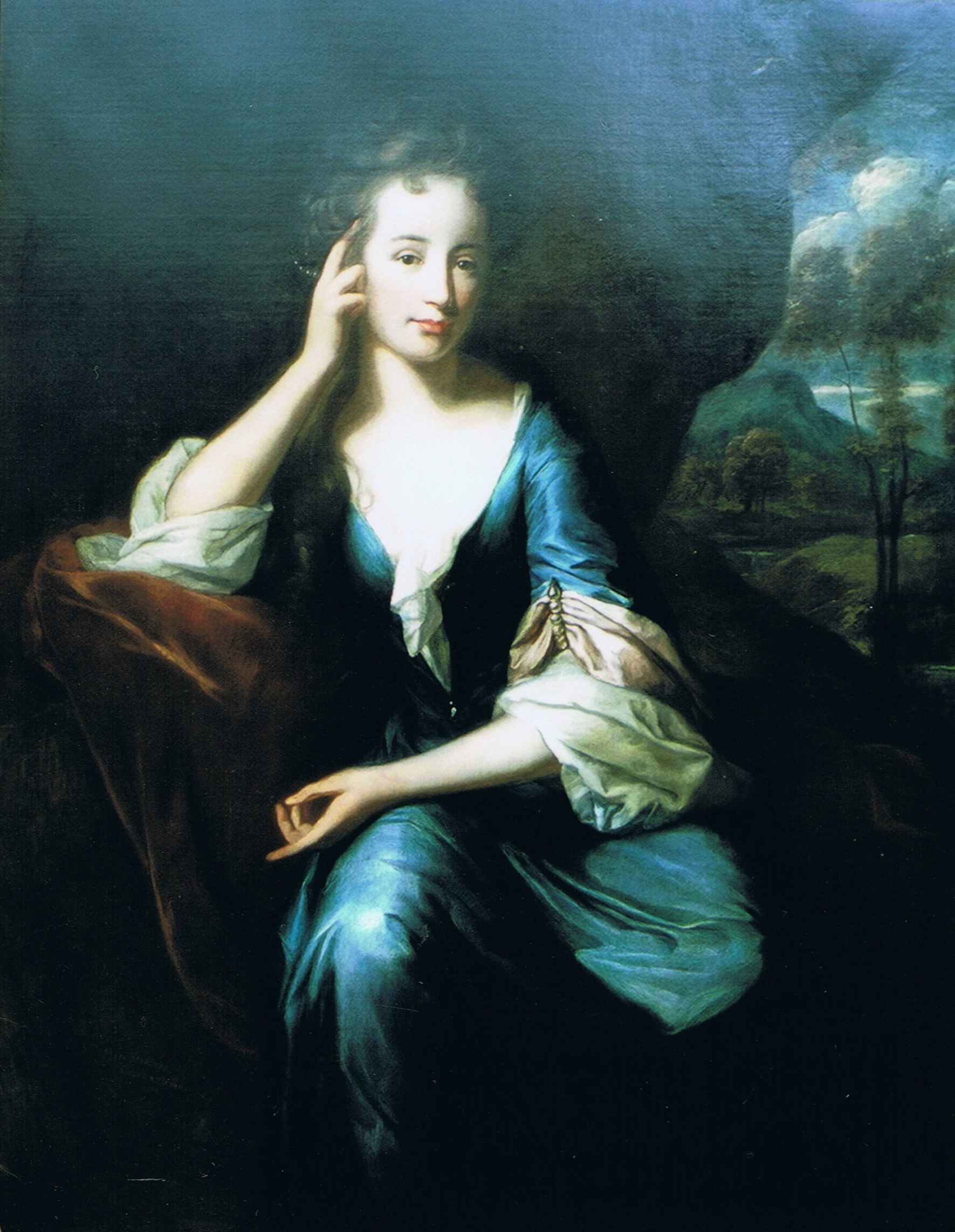 photo (by R. de Salis, Spring 2006) of a portrait of Mary Stanhope who married Lord Fane by Schalken, 1702. The prime version of this portrait is at Chevening, KentRodolph (talk) 15:48, 14 January 2009 (UTC)